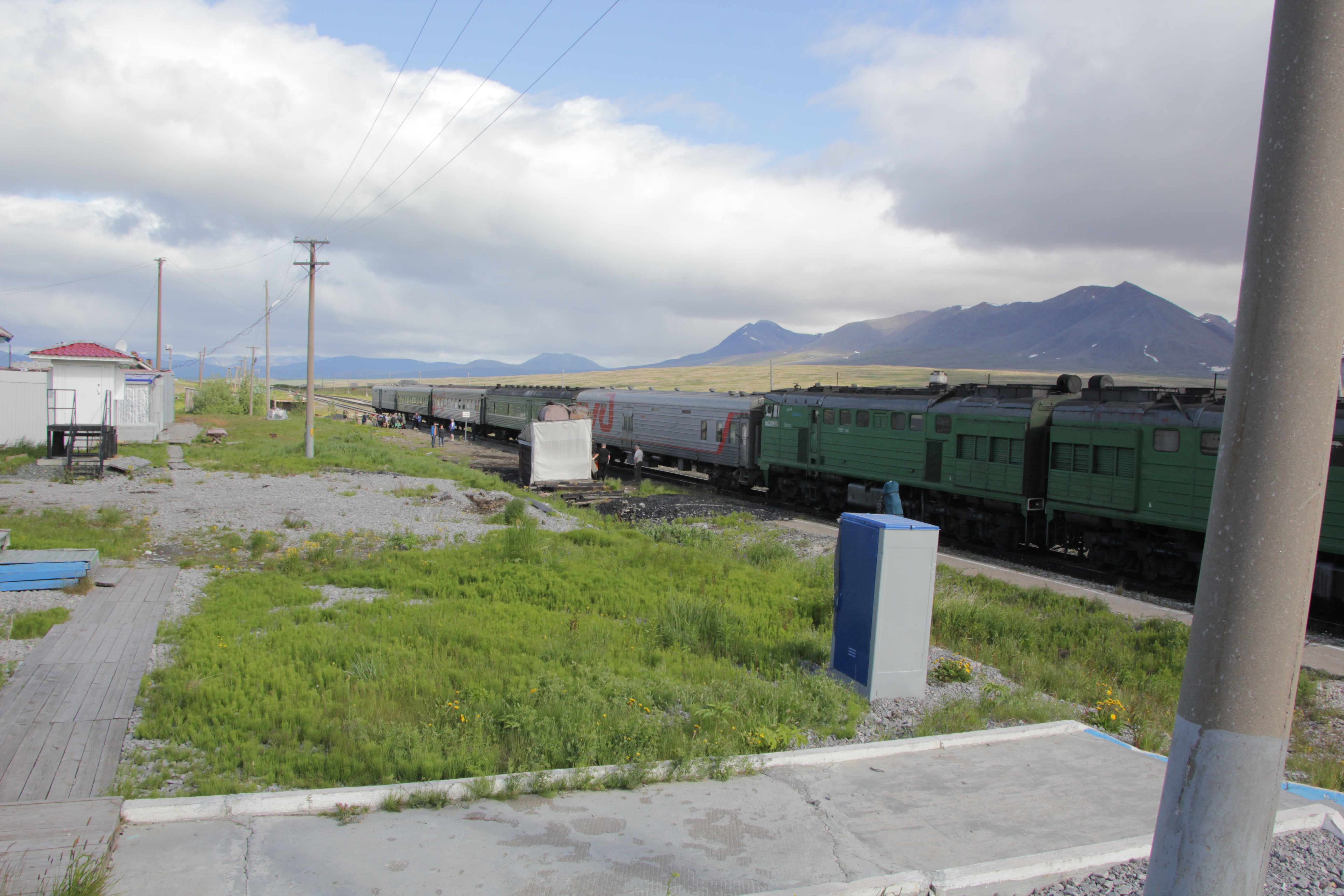 Overview of Polarny-Ural-station of Transpolar railroad, on the right hand side the train to Vorkuta. The station is just at the boarder of Asia and Europe.